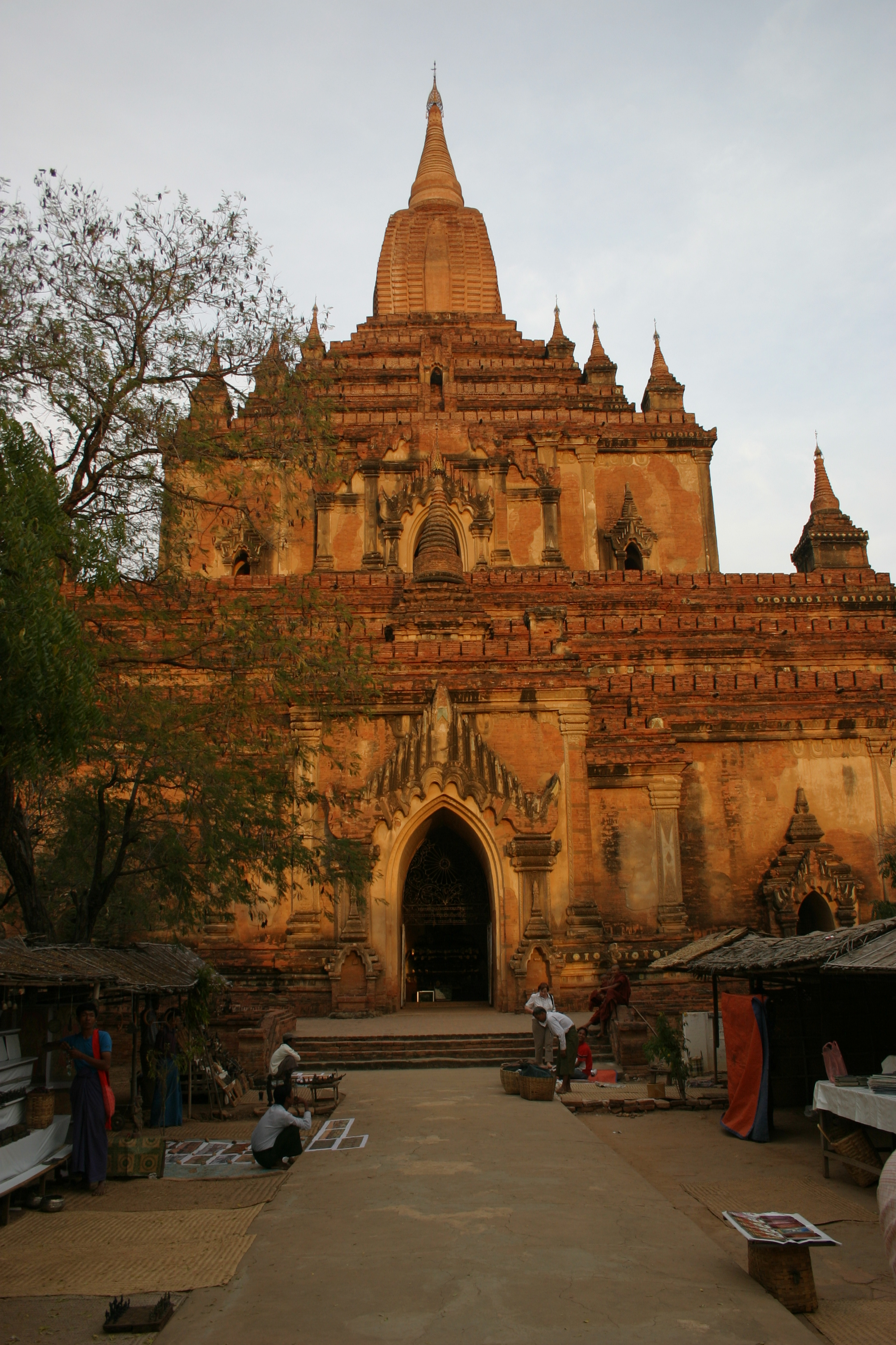 Sulamani temple, Bagan, Myanmar.